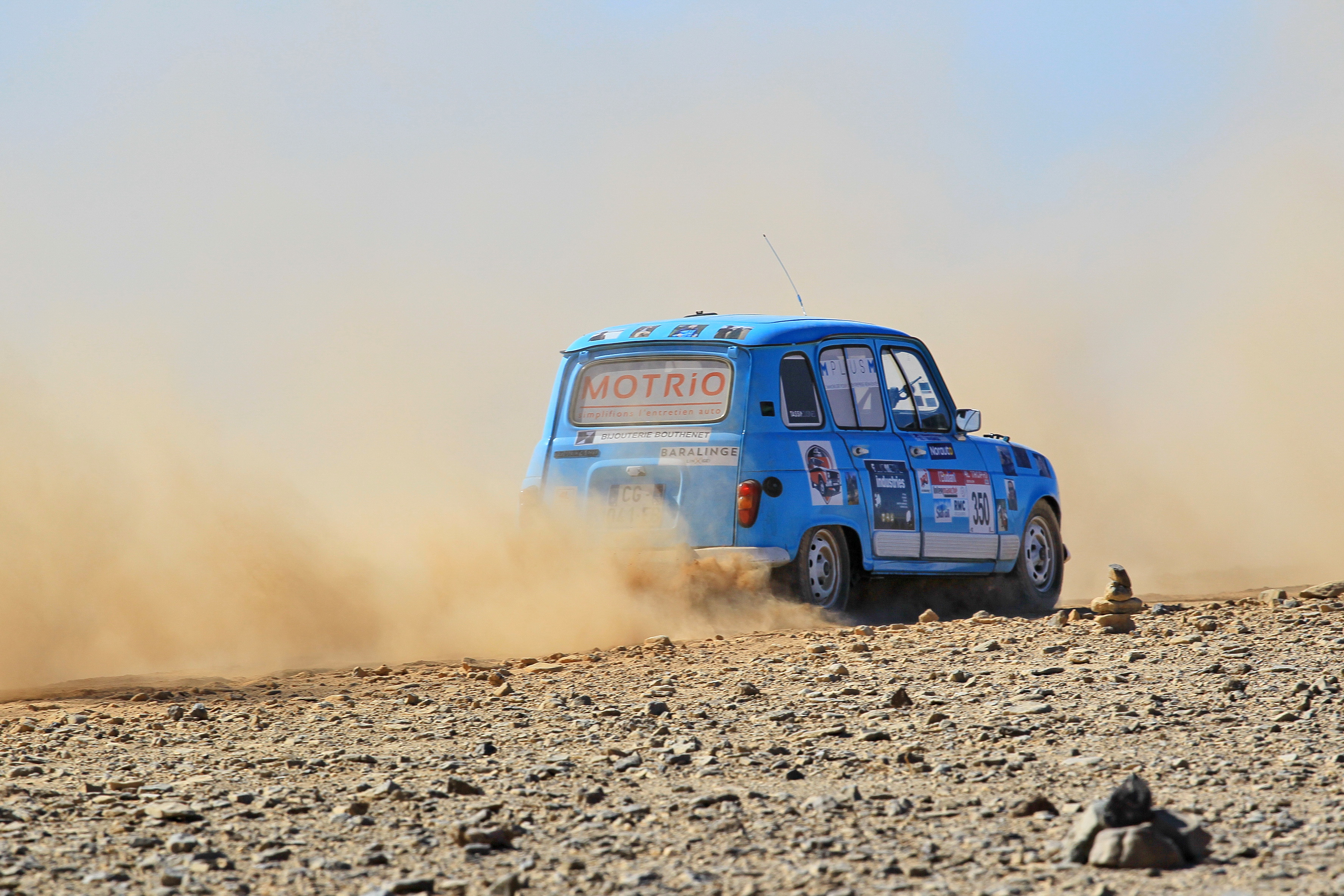 Le Carrosse Motrio 4L Trophy 2019